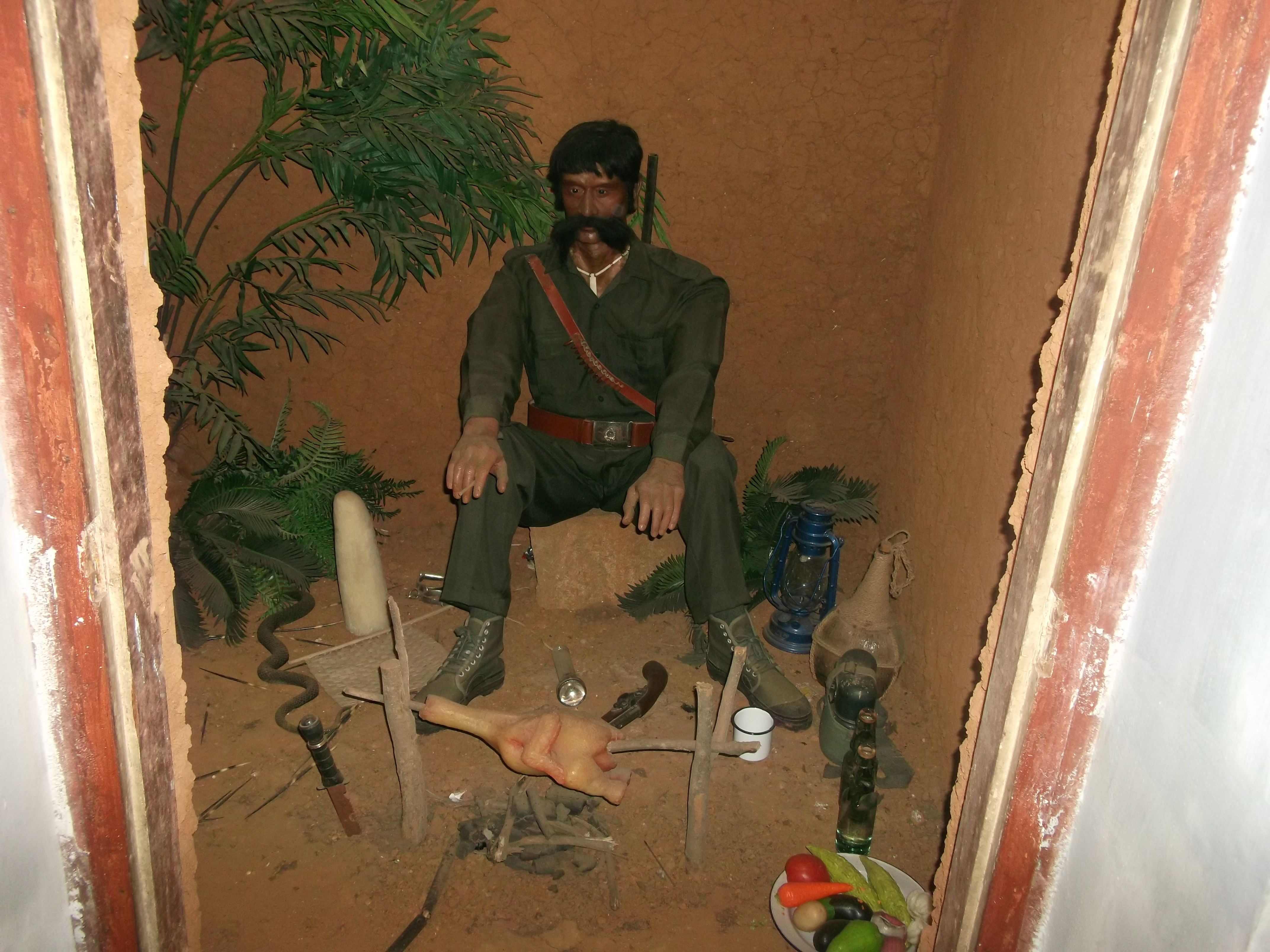 Sandalwood Veerappan